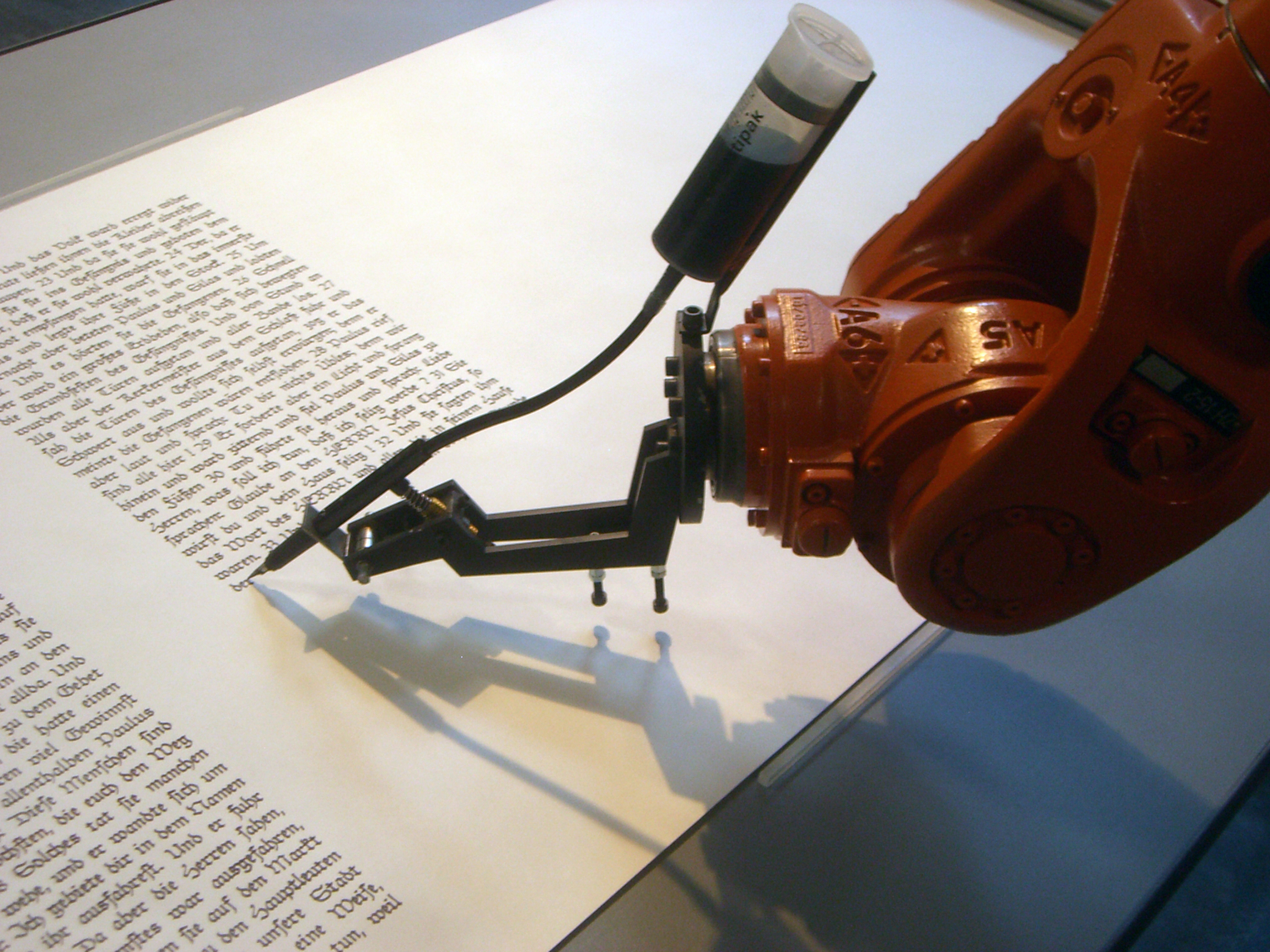 The installation 'bios [bible]' consists of an industrial robot, which writes down the bible on rolls of paper. The machine draws the calligraphic lines with high precision. Like a monk in the scriptorium it creates step by step the text.